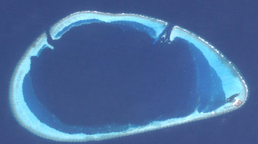 This image (Landsat 7) shows the Gaafaru atoll in the Maledives. On the southeast tip there is island Gaafaru and the smaller islet Velifaru